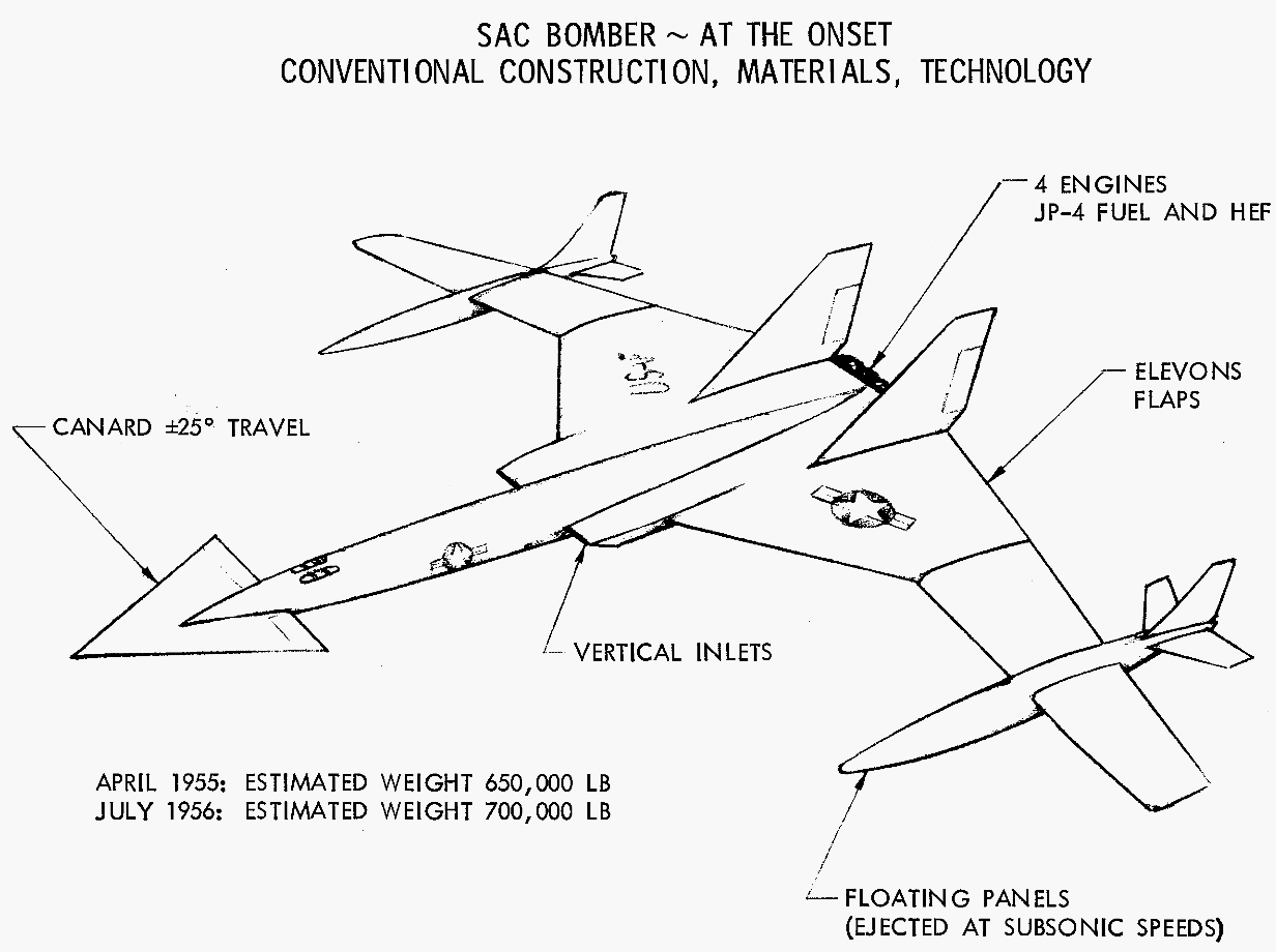 North American Aircraft's original proposal for WS-110A, which would eventually lead to the B-70. From NASA CR-115703, Volume 2, page 22.